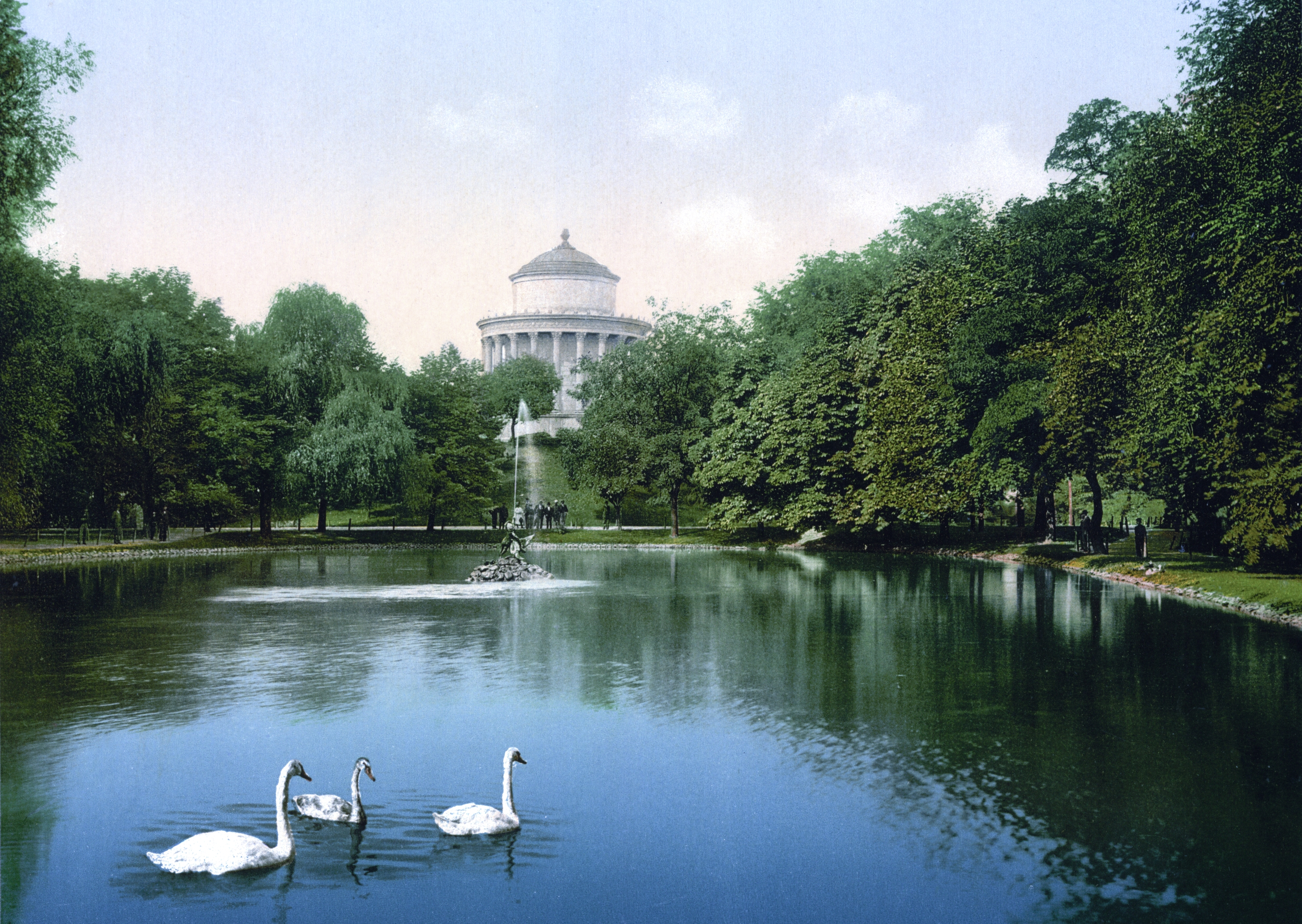 Saxonian Garden Warsaw